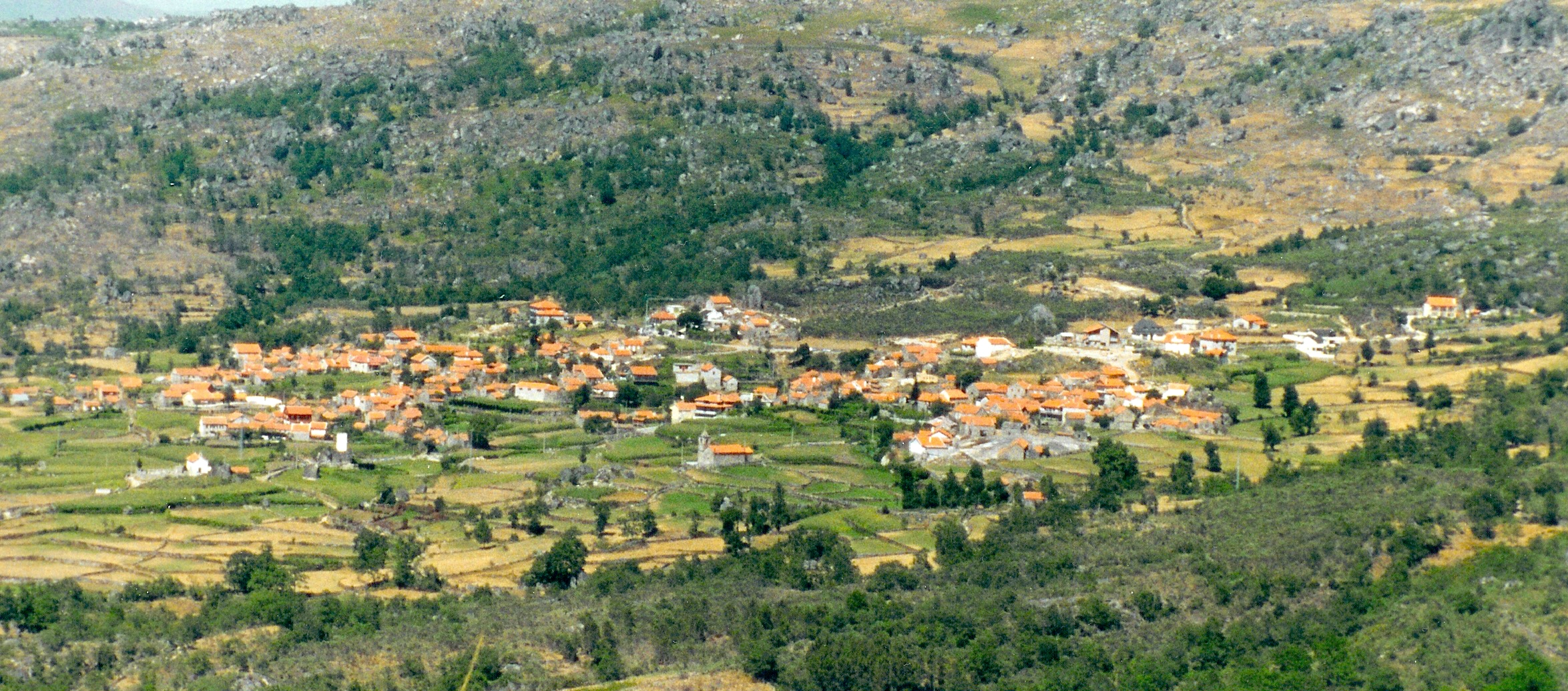 view of Bustelo da Lage - Cinfães , Portugal